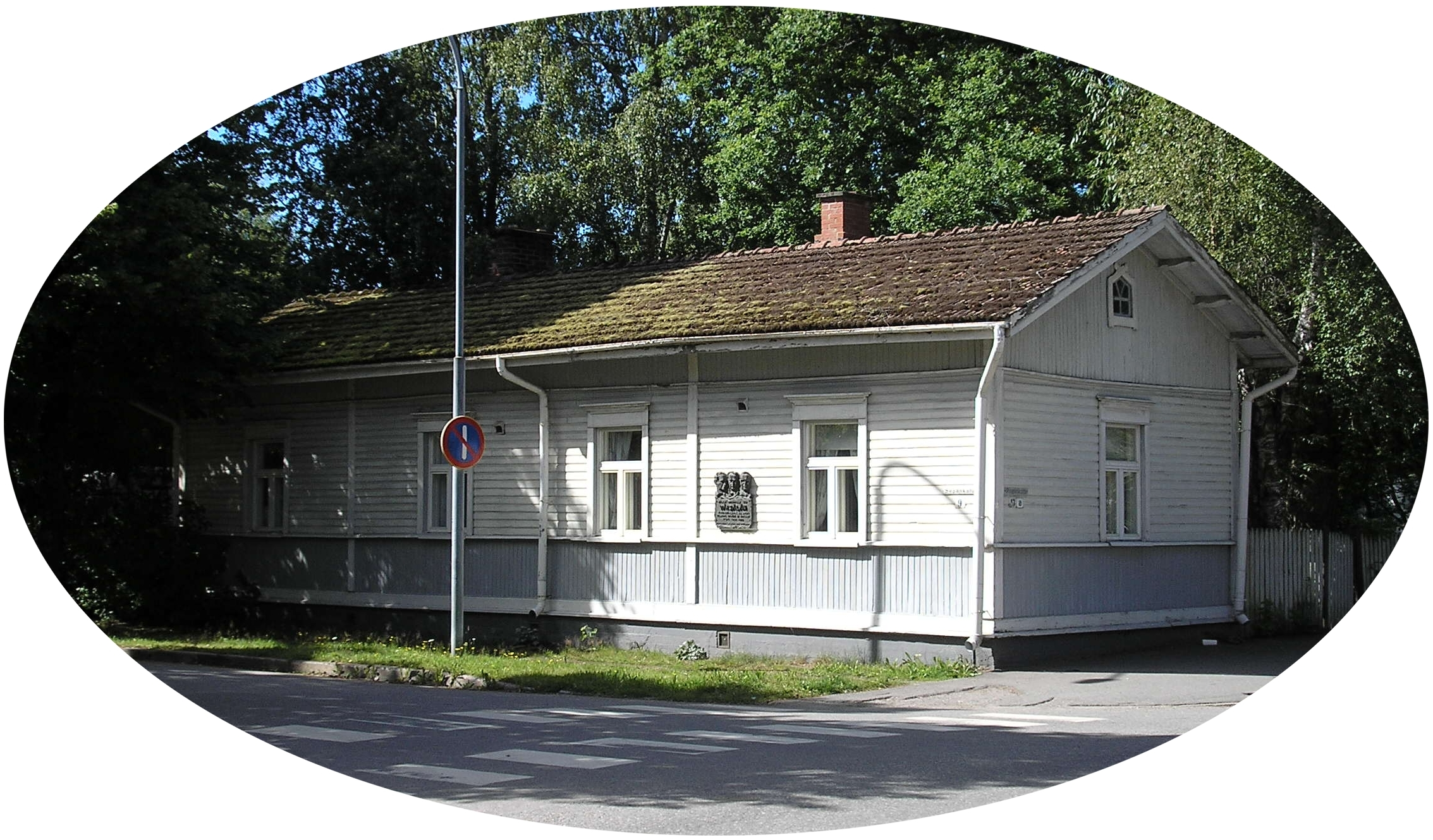 An early 20th century wooden building in the town of Joensuu, Finland, where the famous scientist brothers Väisälä's spent their early years (1904–19).